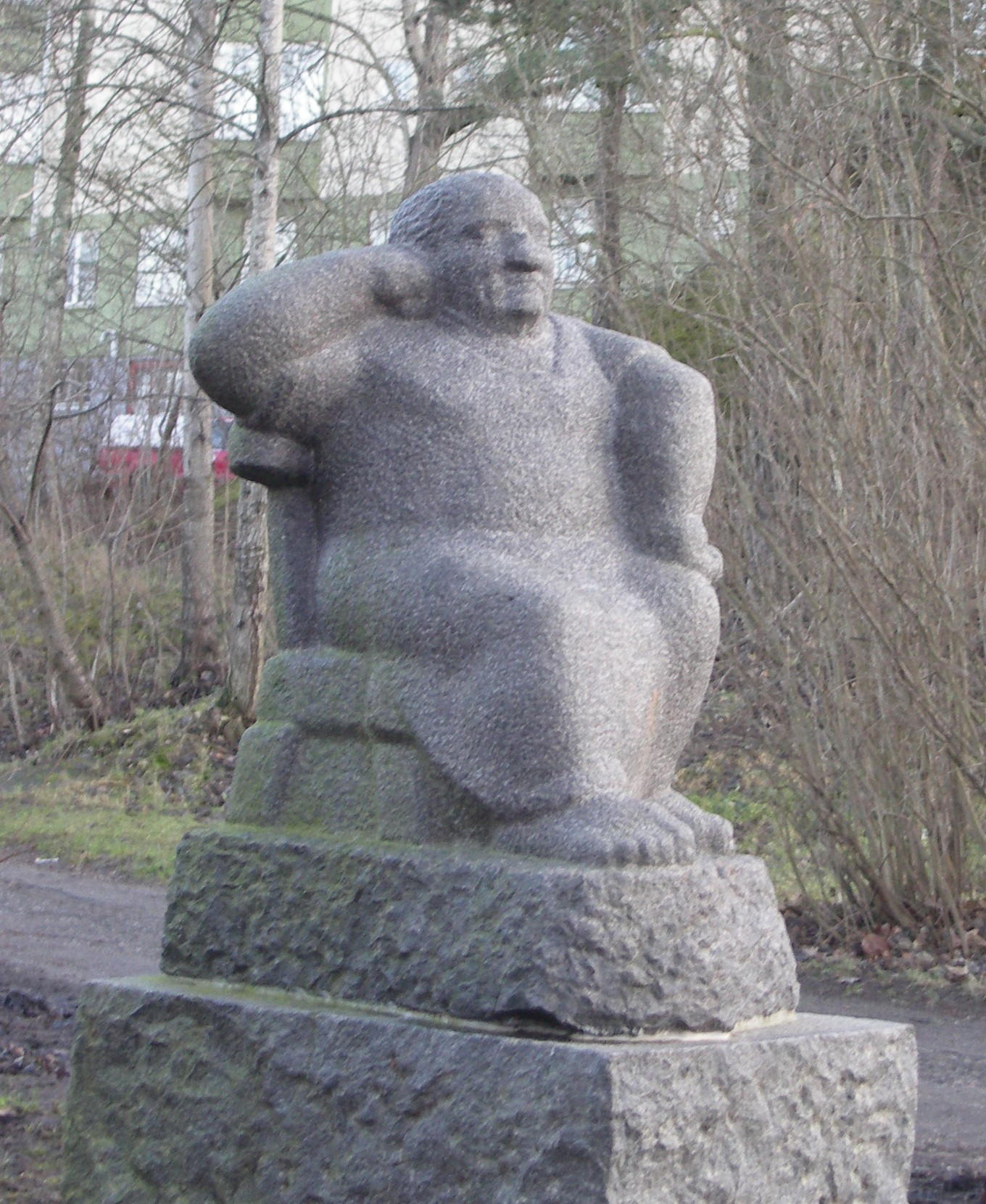 Liss Eriksson´s Aunt (Faster), Västertorp, Stockholm, Sweden